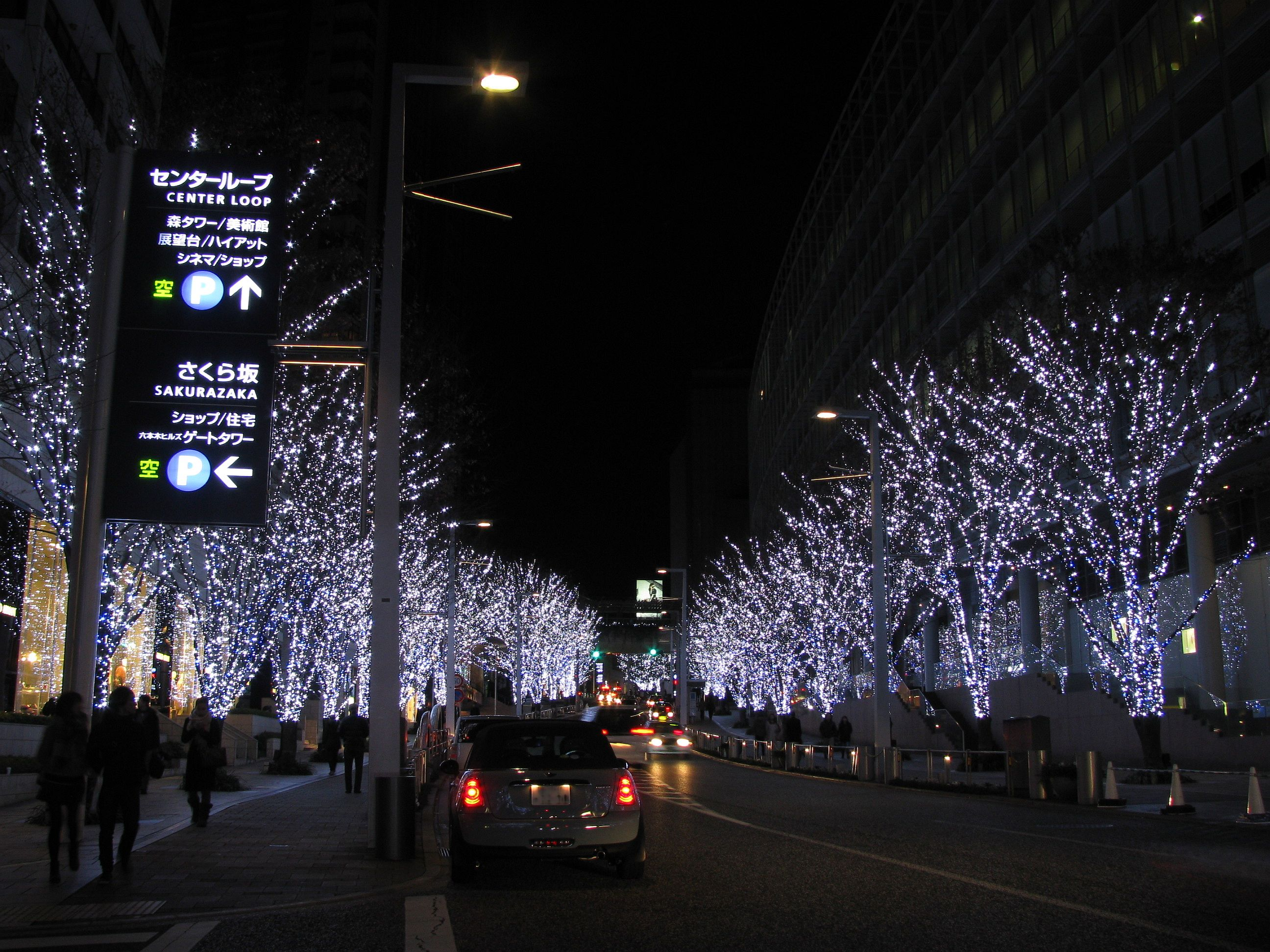 The Roppongi Keyaki-zaka is a slope at Roppongi Hills, in Minato, Tokyo, Japan.